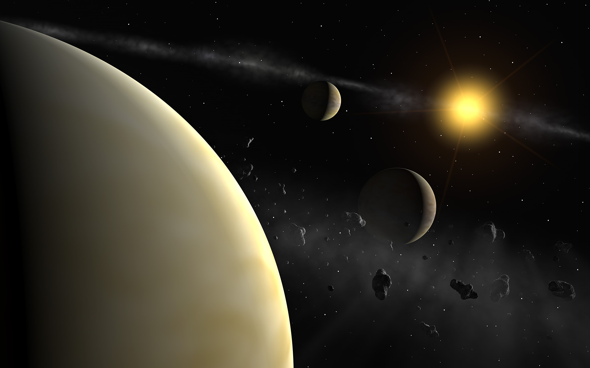 The HARPS measurement reveal the presence of three planets with masses between 10 and 18 Earth masses around HD 69830, a rather normal star slightly less massive than the Sun. The planets' mean distance are 0.08, 0.19, and 0.63 the mean distance between the Earth and the Sun. From previous observations, it seems that there exists also an asteroid belt, whose location is unknown. It could either lie between the two outermost planets, or farther from its parent star than 0.8 the mean Earth-Sun distance.